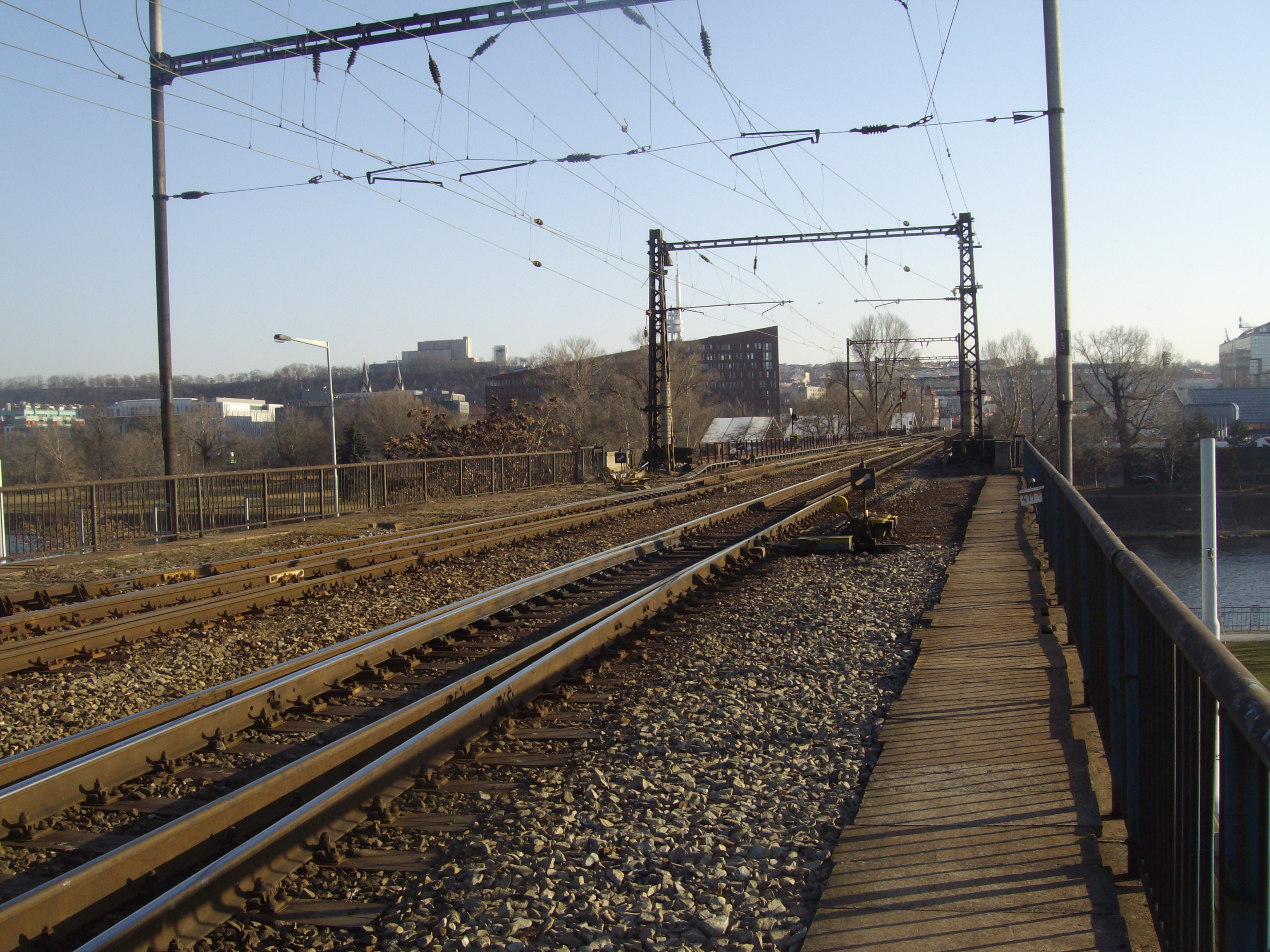 Prague - Negrelli´s viaduct - view to Karlín Praha - Negrelliho viadukt - pohled ke Karlínu